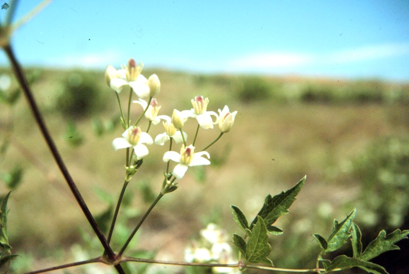 This image is not copyrighted and may be freely used for any purpose. Please credit the artist, original publication if applicable, and the USDA-NRCS PLANTS Database. The following format is suggested and will be appreciated: Linda Turrey @ USDA-NRCS PLANTS Database USDA NRCS Pullman PMC. USA, WA, Pullman USDA Plants Database